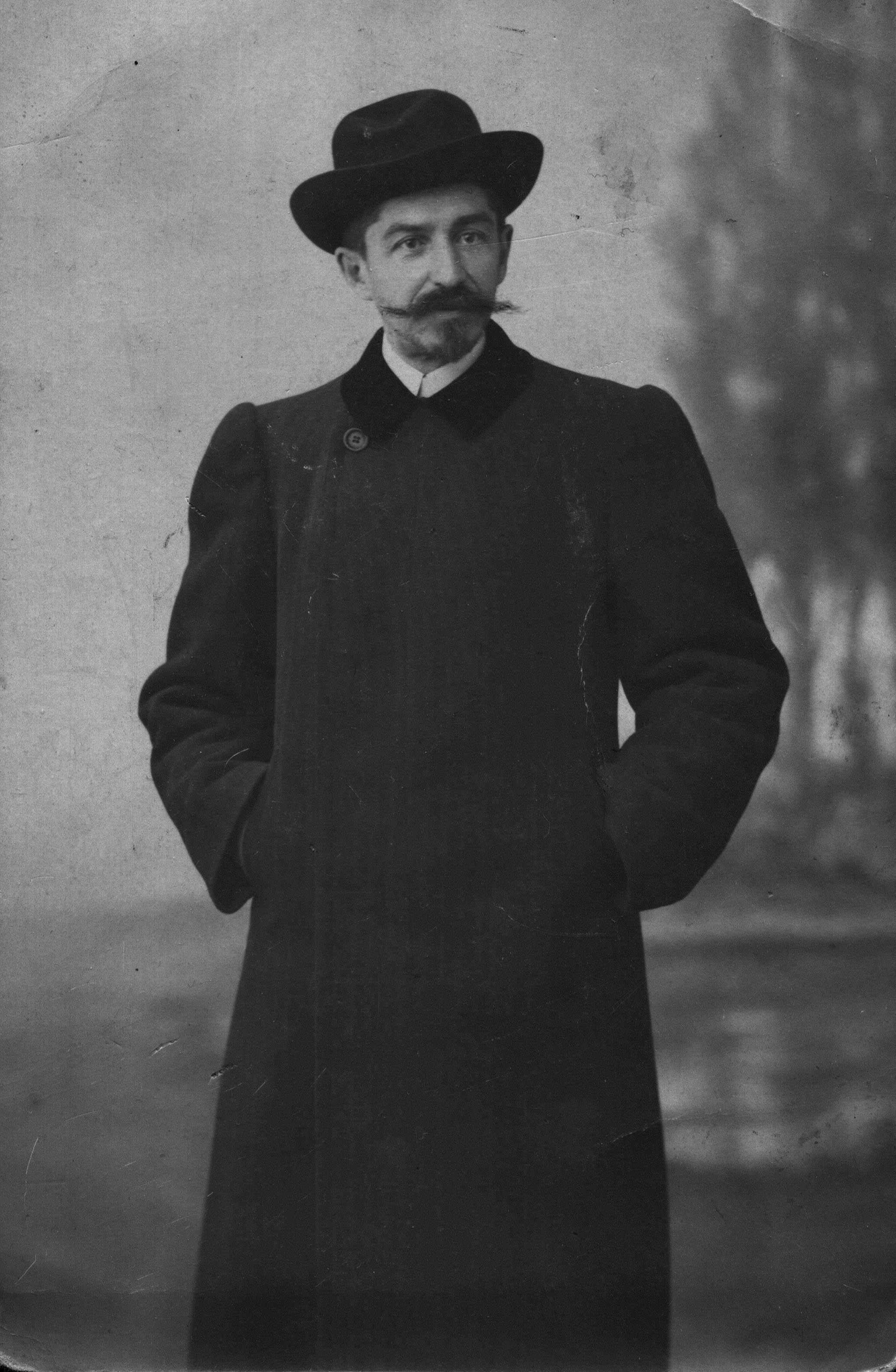 Alexander Alexandrovich Ern, Russian politician, a member of the Fourth Russian State Duma